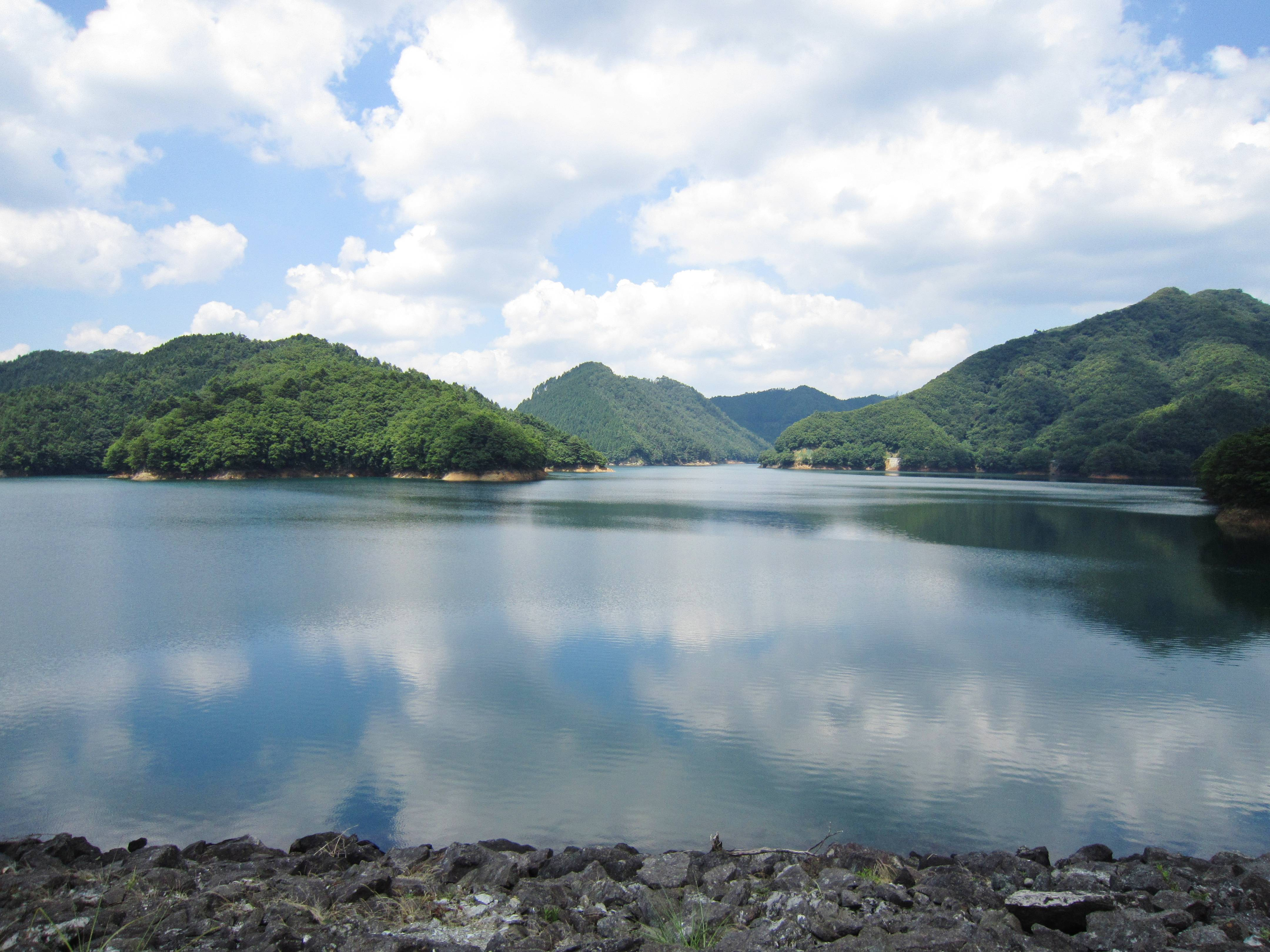 Kurokawa Dam.